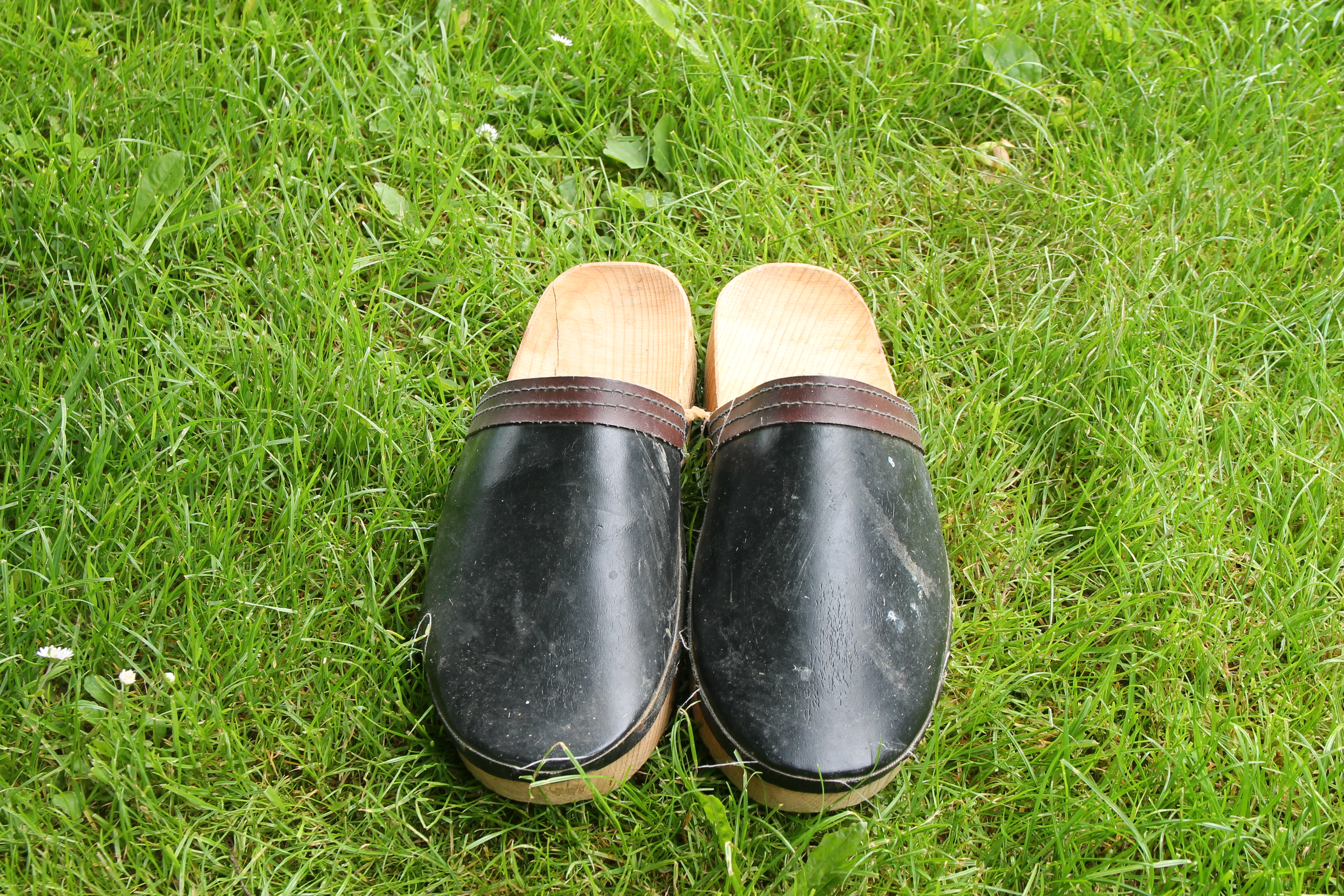 Mejšle, traditional shoes of Bohemian Forest